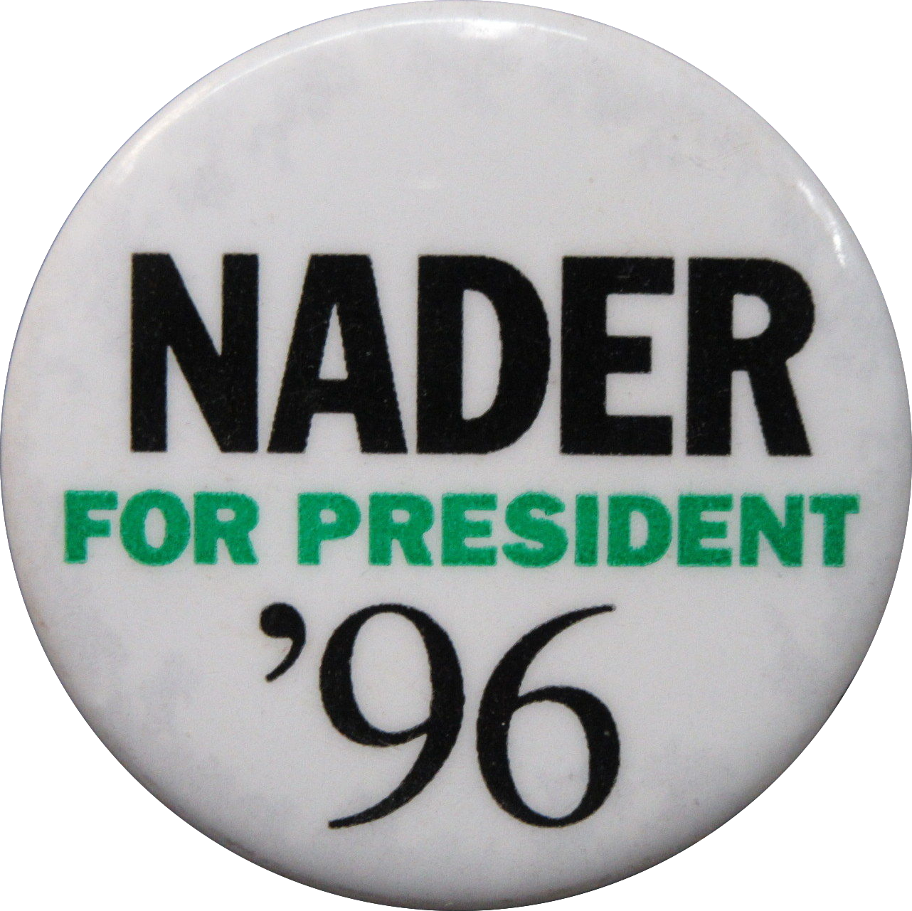 Ralph Nader 1996